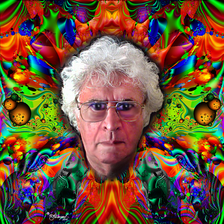 Ed Seeman, fractal selfportrait